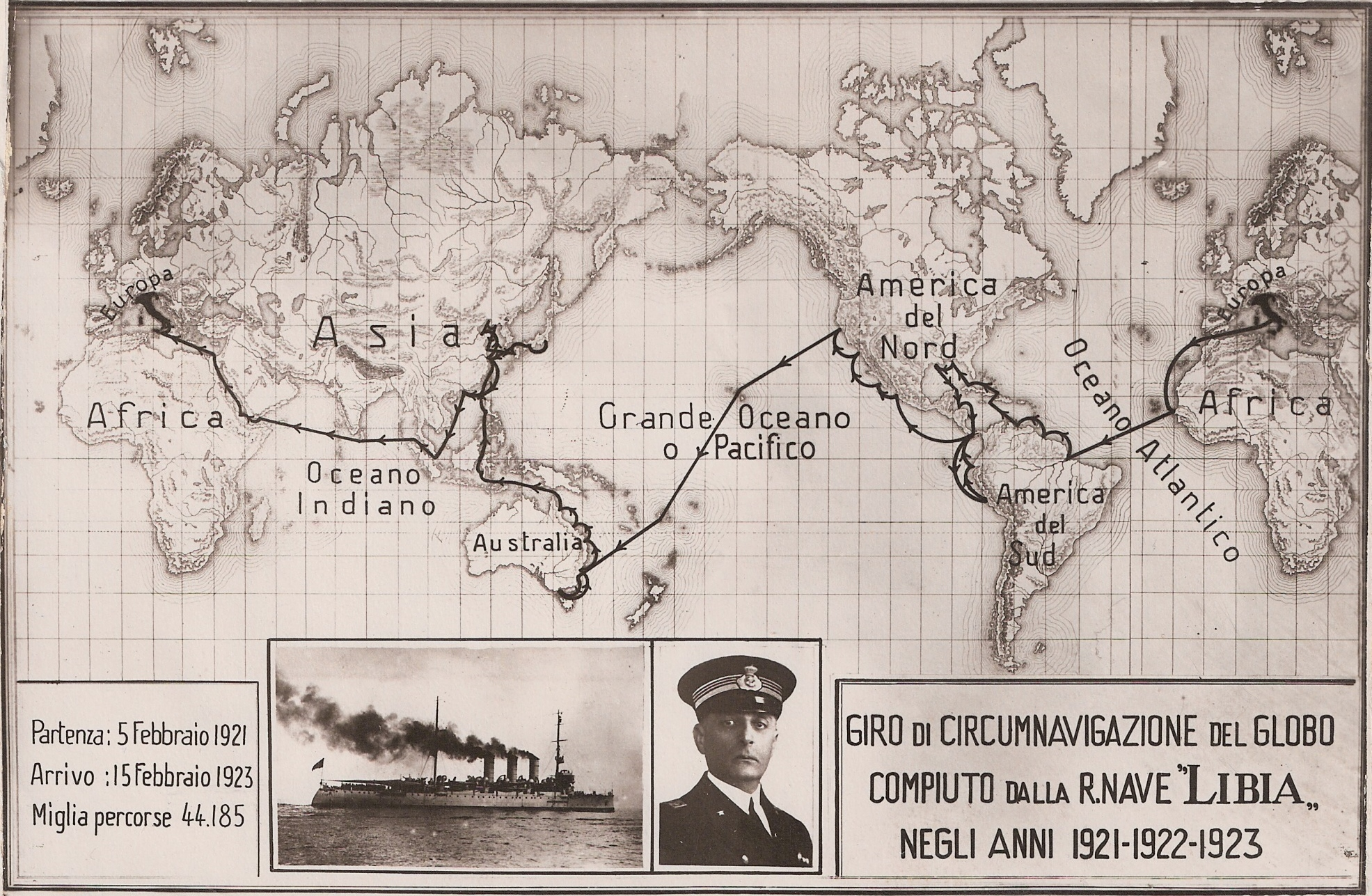 Commemoration of the circumnavigation of the globe by HM Italian ship "Libia" in 1921, 1922 and 1923, commanded by Ernesto Burzagli (1873-1944). The original picture, scanned by Emiliano Burzagli, belongs to the Private archive of Burzaghi family, Italy.